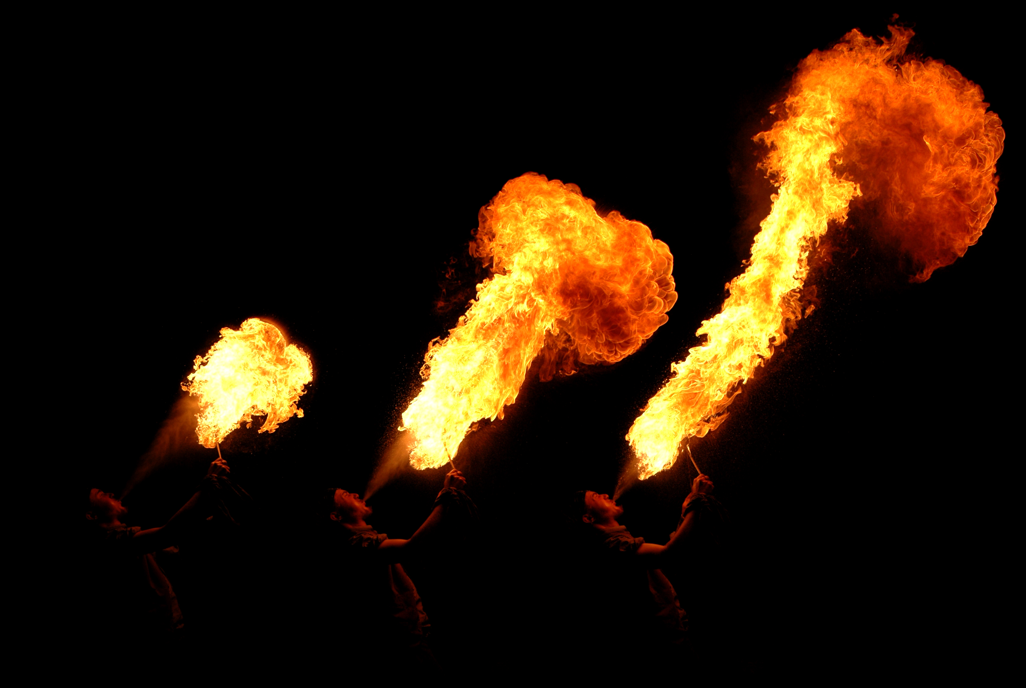 1/3 second between each shot. Put together in photoshop.